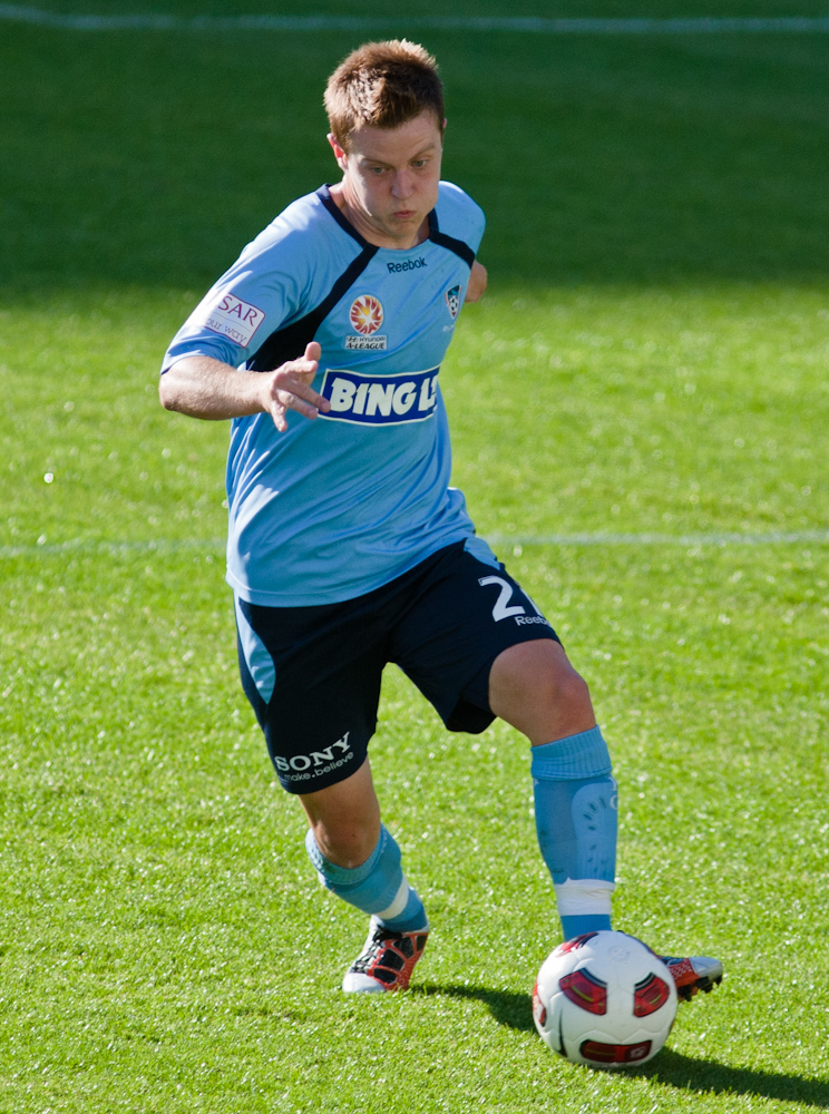 Scott Jamieson playing for Sydney FC in the 2010/11 A-League.